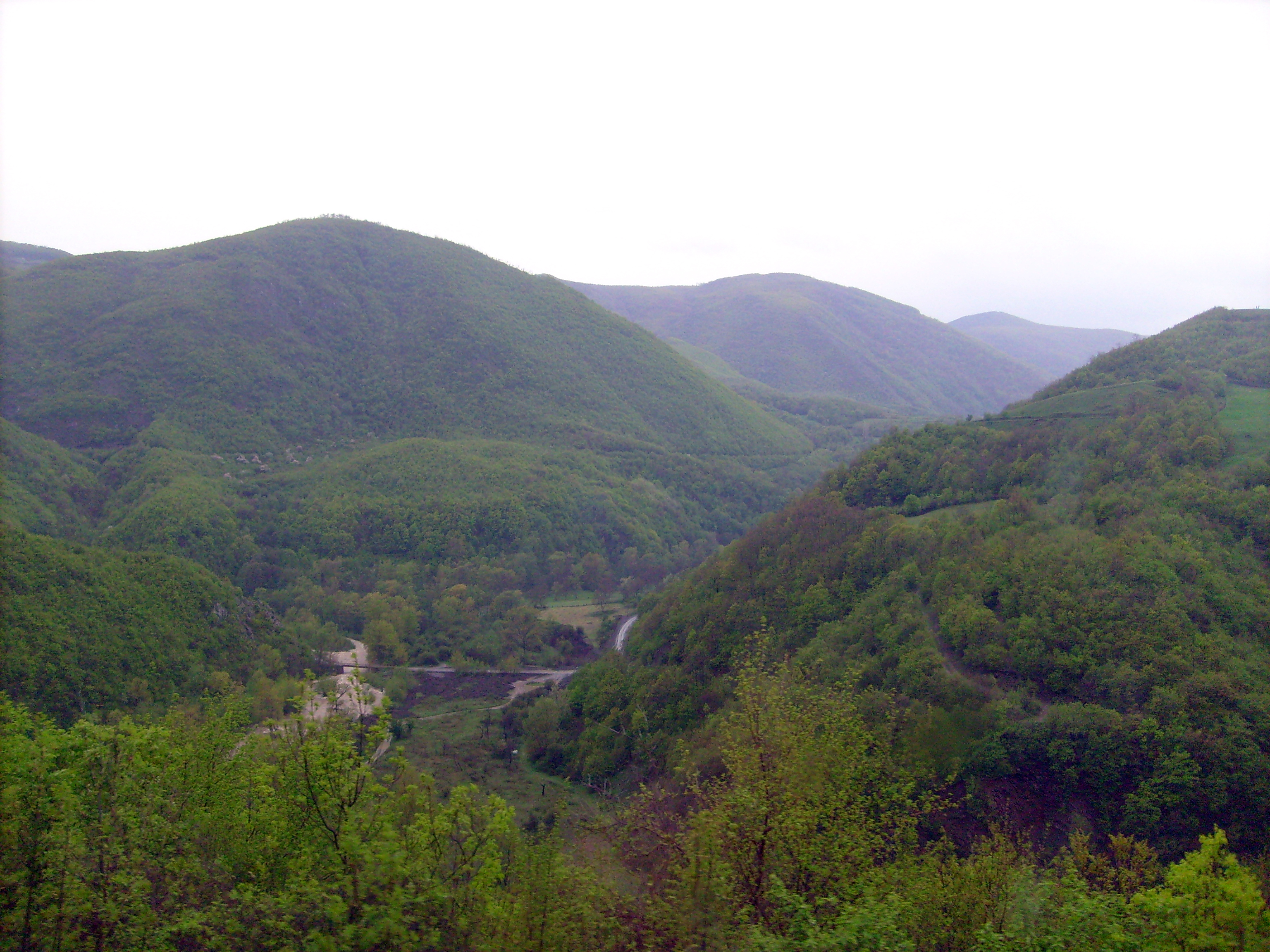 Han i Elezit/Elezhan region (Kosovo)